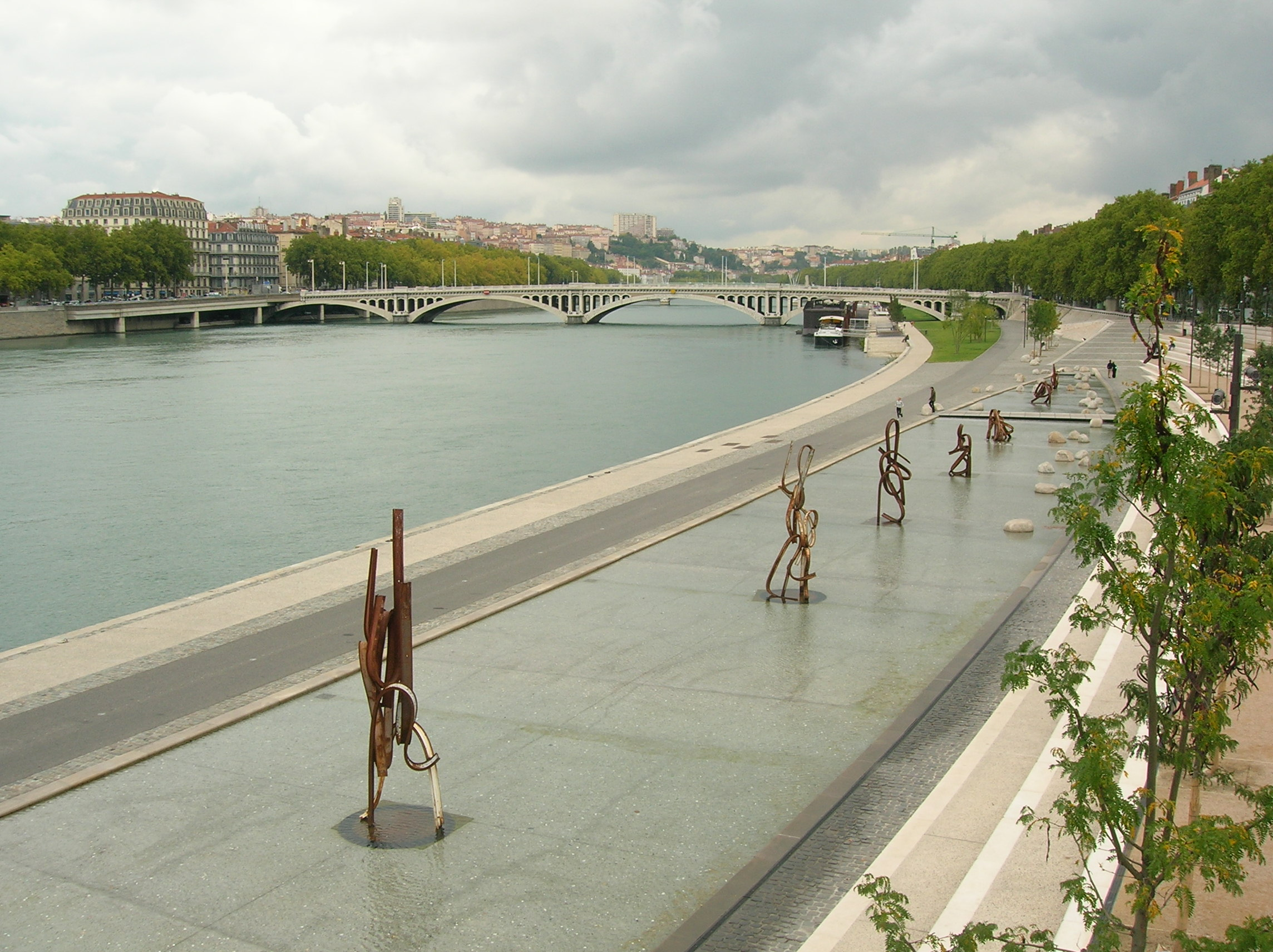 "Rives sur Berges" outdoor exhibition in September-October 2007 on Rhone River banks of Lyon, during the Rugby World Cup. Sculptures by former rugby player Jean-Pierre Rives.